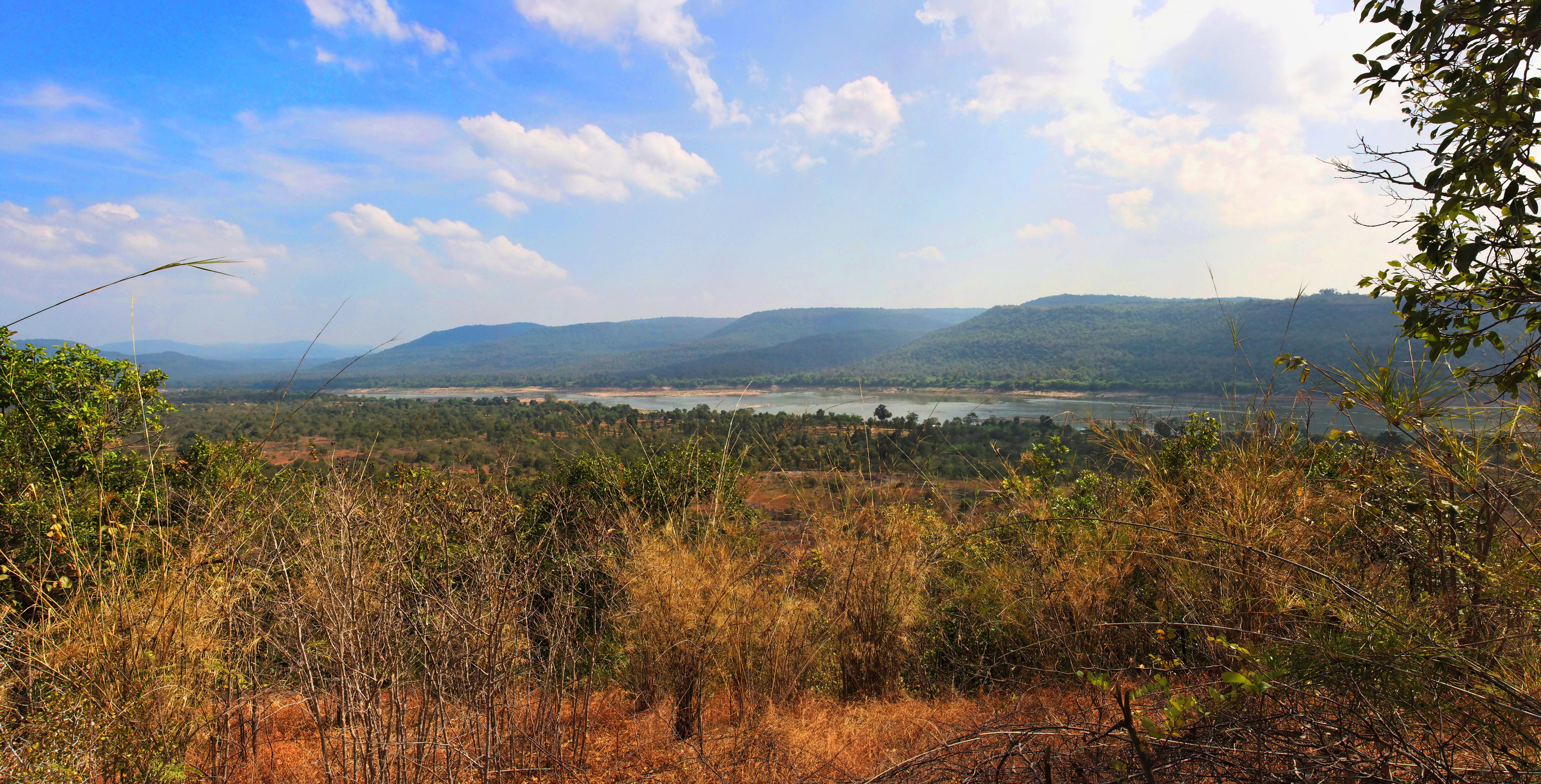 Pha Taem National Park, Ubon Ratchathani province, Thailand: Mekong river